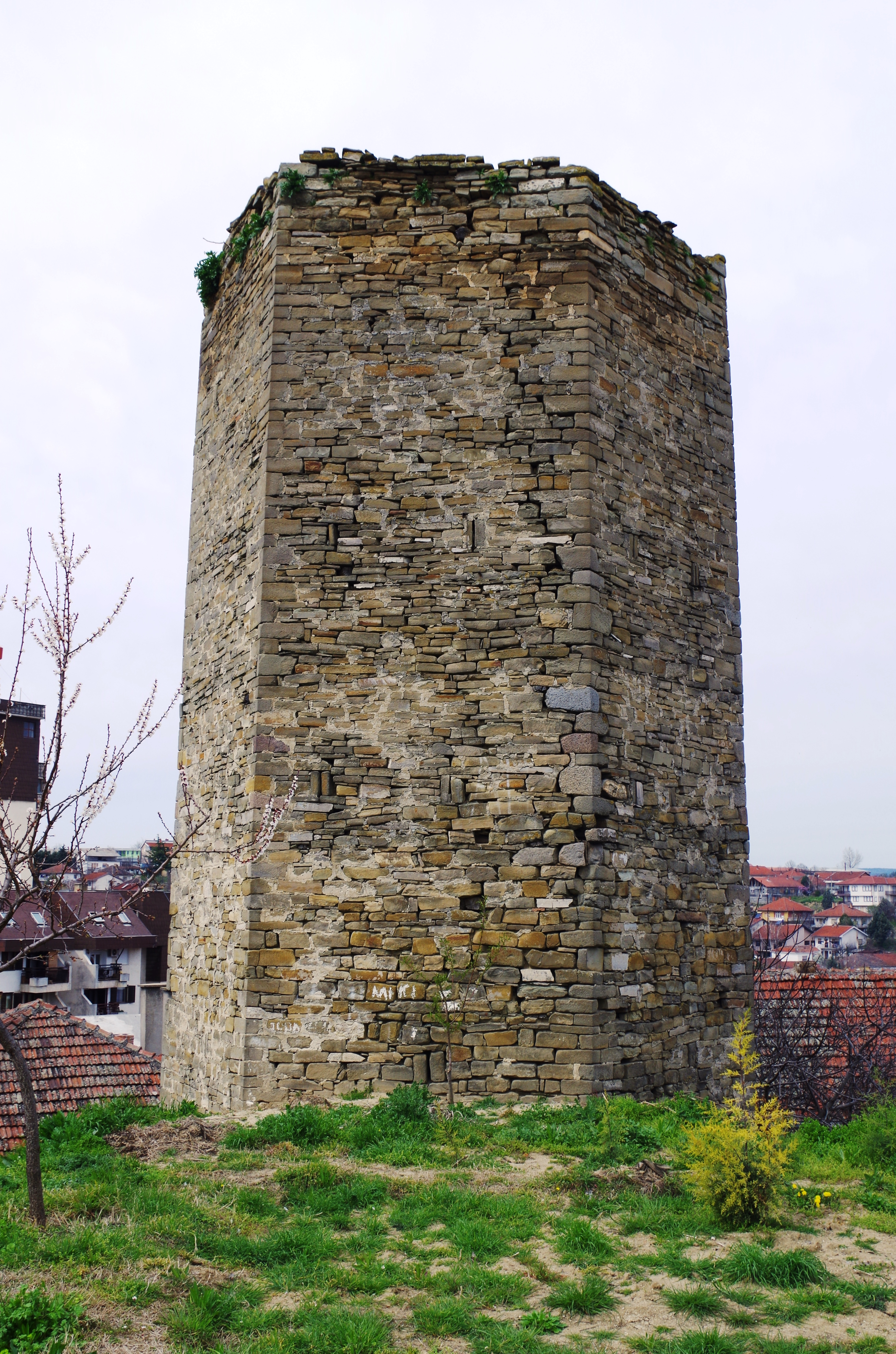 Clock tower in Negotino